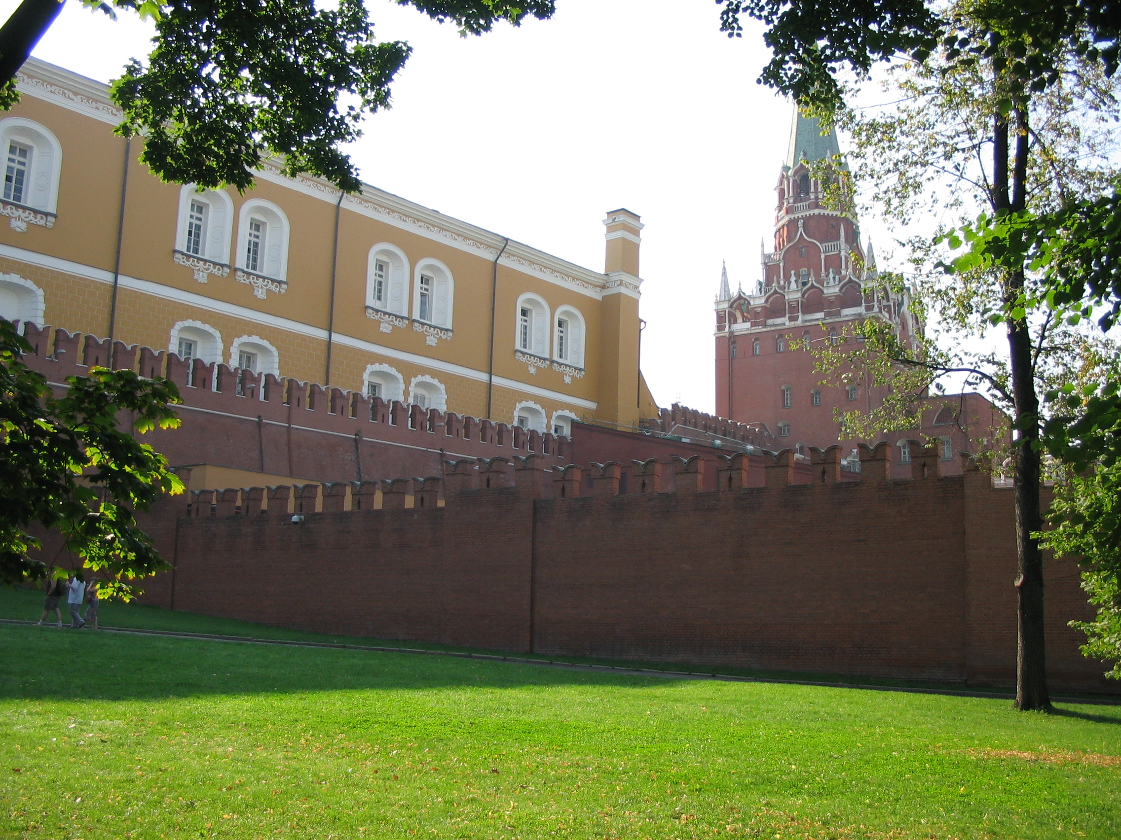 Alexander Garden. Moscow